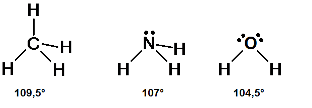 The orientation of covalent bonds